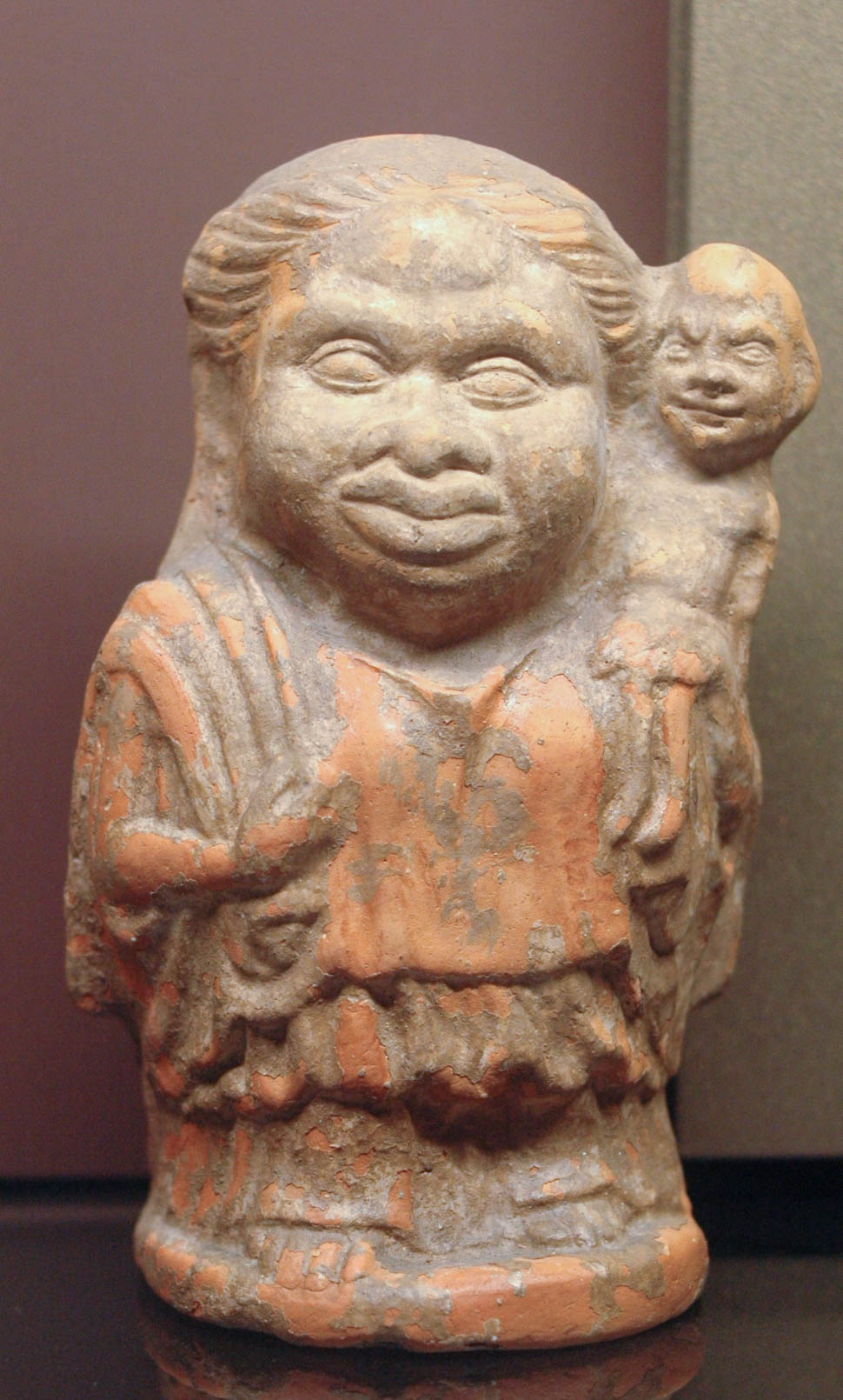 Grotesque dwarf woman holding a young girl. May be a caricature of Demeter holding young Persephone. Terracotta, coming from Lamia, Thessaly, made in Attica?, c. 325–300 BC.